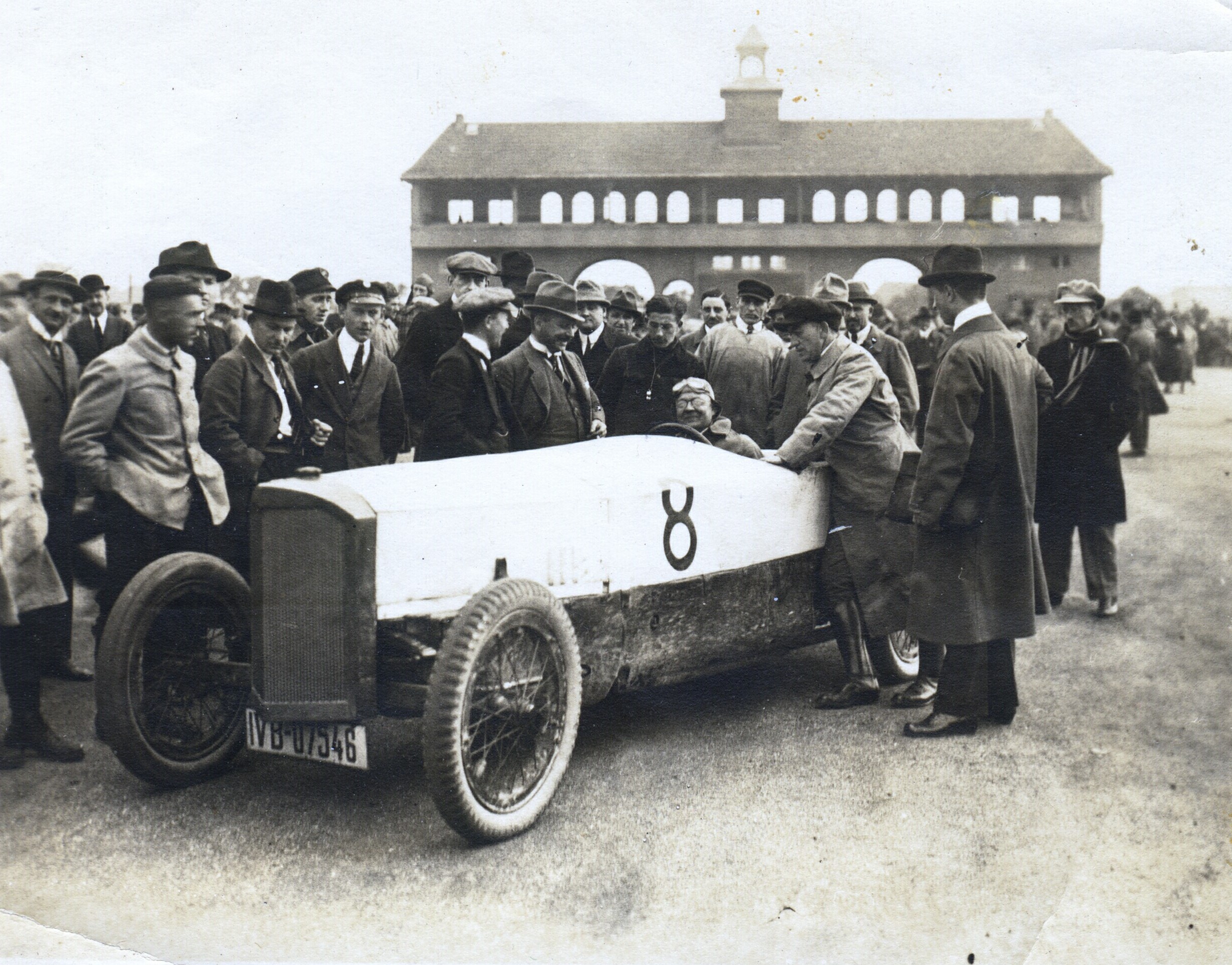 Racing car 6/18 of "Heim & Cie Badische Automobilfabrik Mannheim" during tests for the first AVUS race in 1921. Test driver is Arthur Henney, who had developed the car with Franz Heim. In the race on 25 September 1921 Franz Heim drove in the VIA class. An engine defect forced him to stop in the penultimate lap.